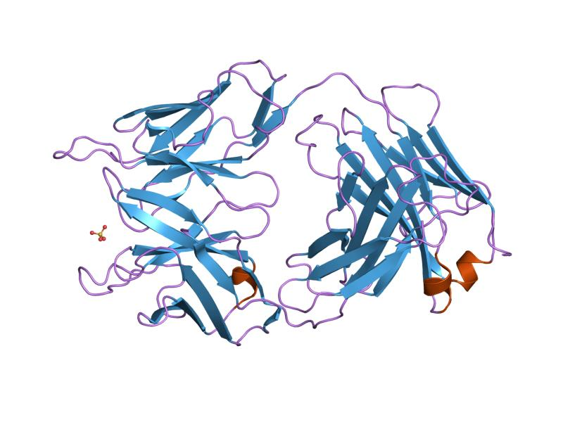 Cartoon representation of the molecular structure of protein registered with 1mcp code.